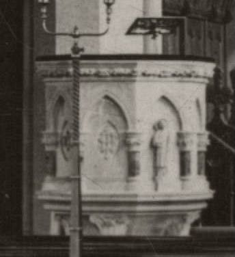 Cropped version of postcard of interior of St Lawrence, Pudsey, or Pudsey Parish Church, in Pudsey, West Yorkshire, England. Designed by Thomas Taylor, built 1821-1823. See File:St Lawrence Pudsey 003.jpg for full image. Benjamin Payler (1841-1907) carved the pulpit (shown here) during the 1887-1888 restoration of the building. The basso-relievo figure at the centre front of the pulpit (shown here to the right) is St Lawrence. The panel in the centre of the image has the IHS monogram. The pulpit is carved in Caen stone, with niches separated by green serpentine columns. Unknown author information: Postcard books have been checked; the library has been checked; an online search has been done. No evidence of the author has been found.